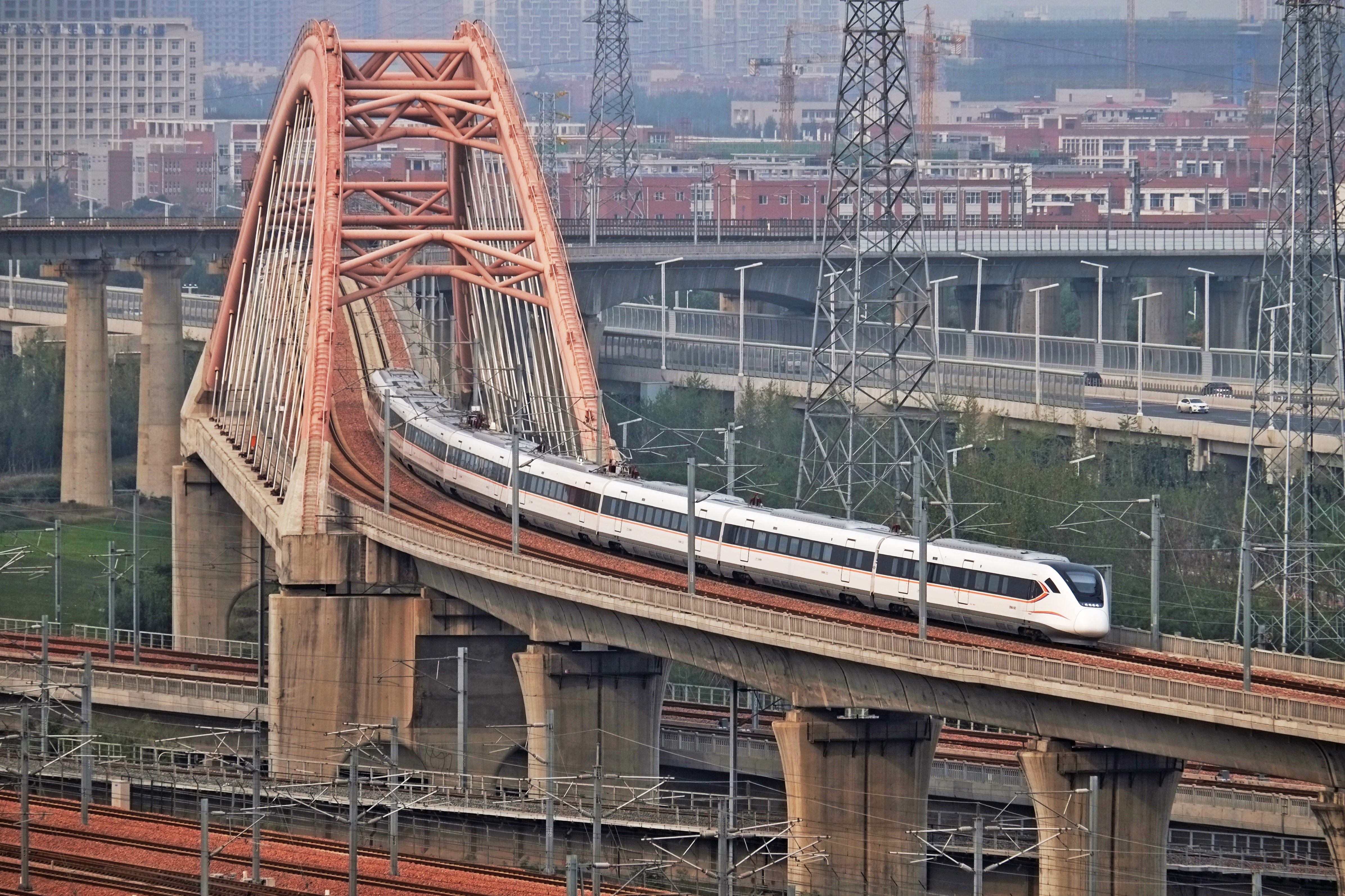 A CRH6A EMU (CRH6A-0425) on Zhengzhou-Kaifeng (Zhengkai) Intercity Railway near Zhengzhou East Railway Station